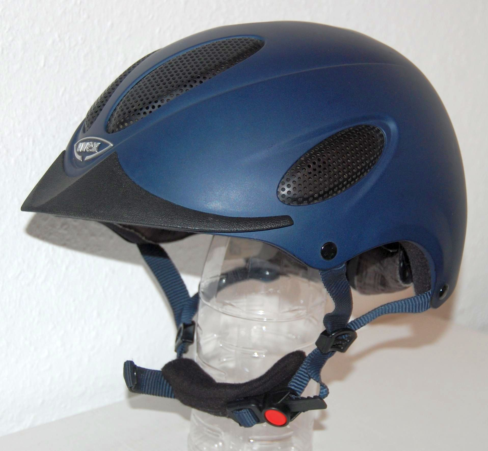 modern riding helmet